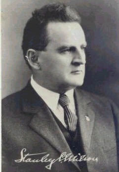 Stanley C. Wilson, Governor of Vermont, 1931-1935